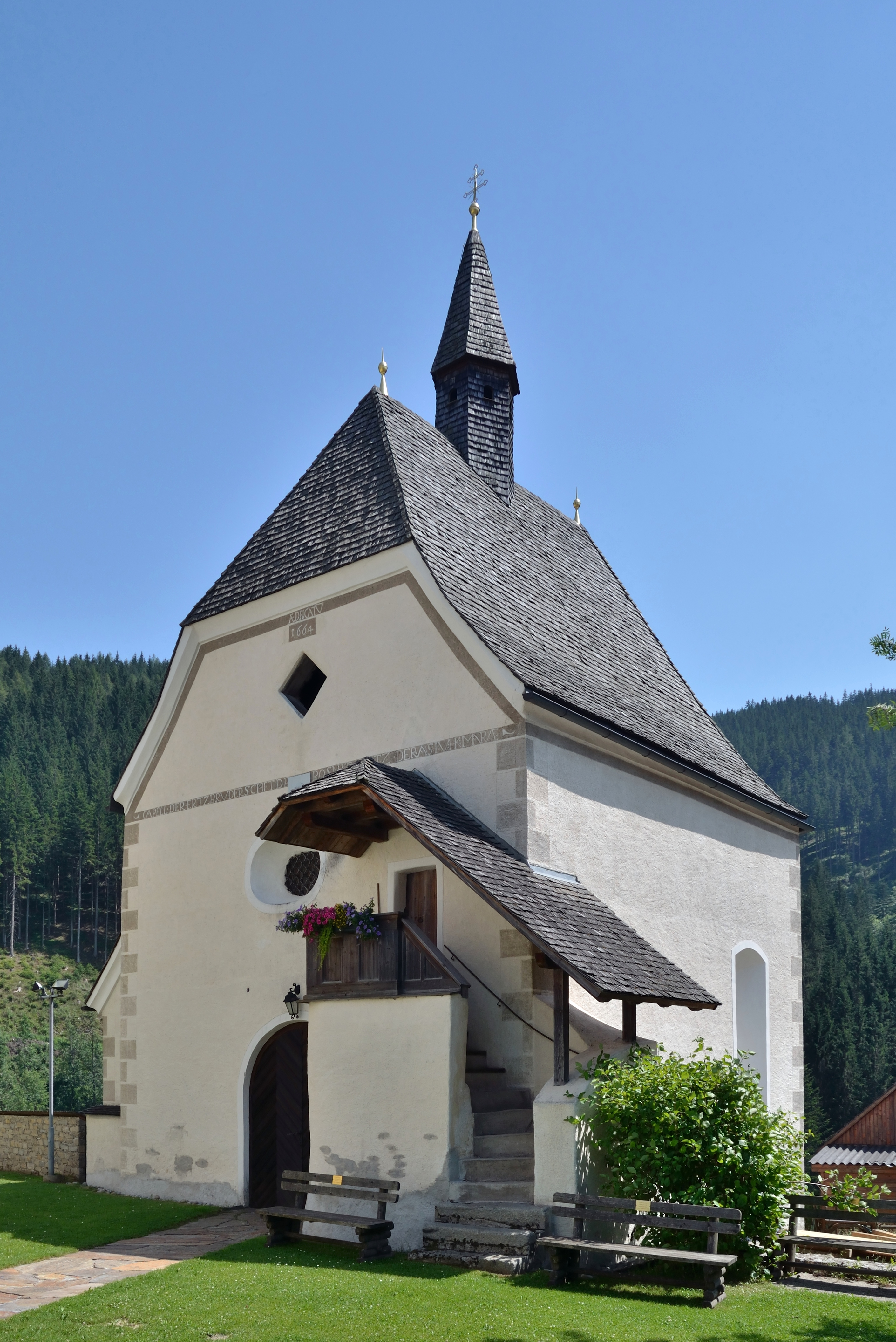 Rosenkranzkapelle (chapel of holy rosary) in Ratten, Styria, Austria. Built in 1664. Cultural heritage monument.